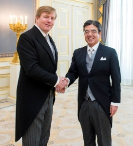 Hiroshi Inomata, Ambassador to Netherlands, presented his diplomatic credentials to King Willem-Alexander at Noordeinde Palace in The Hague Municipality, South Holland Province on March 23, 2016.